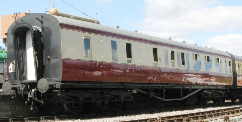 Great Western Railway Diagram D124 Brake Third built c.1937 number 1614. Preserved on the South Devon Railway in British Railways carmine and cream livery.